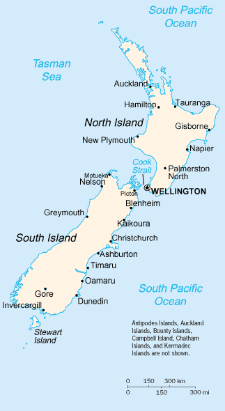 Please DO NOT USE this map! (unless you want to mislead your readers) It shows vastly incorrect positions for the towns of Motueka, Nelson, Blenhiem, Kaikoura, Ashburton, Timaru and Gore.